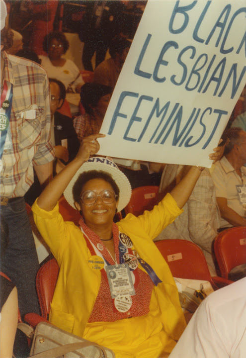 A banner in support of Black Lesbian Feminism. “Lesbian & Gay Caucus member holds a sign that reads "Black Lesbian Feminist” at the 1980 Democratic National Convention at Madison Square Garden in New York City. August 11-14, 1980.“